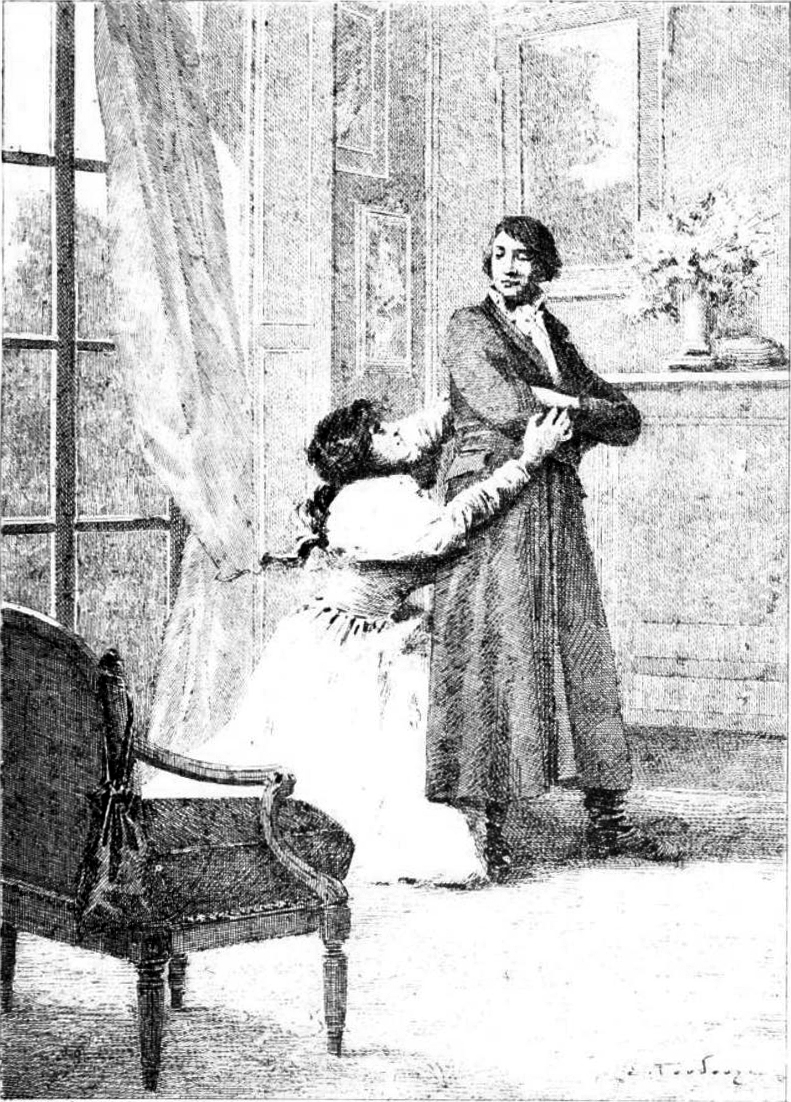 Illustration of Honoré de Balzac's Le Colonel Chabert (1832).